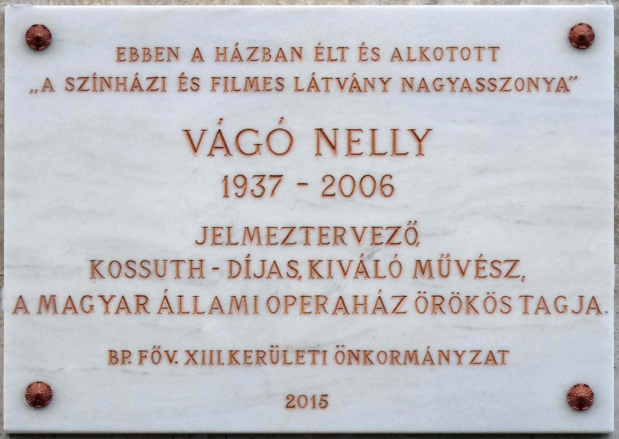 Commemorative plaque to Mrs. Nelly Vágó (1937-2006), Kossuth Prize-winning Hungarian costumier, a Life member of the Hungarian State Opera House. It has been affixed to the front of her former home and inaugurated March 27, 2015 on the occasinon of the World Theatre Day. (Budapest, District XIII, Kassák Lajos Street Nr 12)